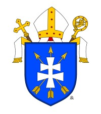 coat of arms